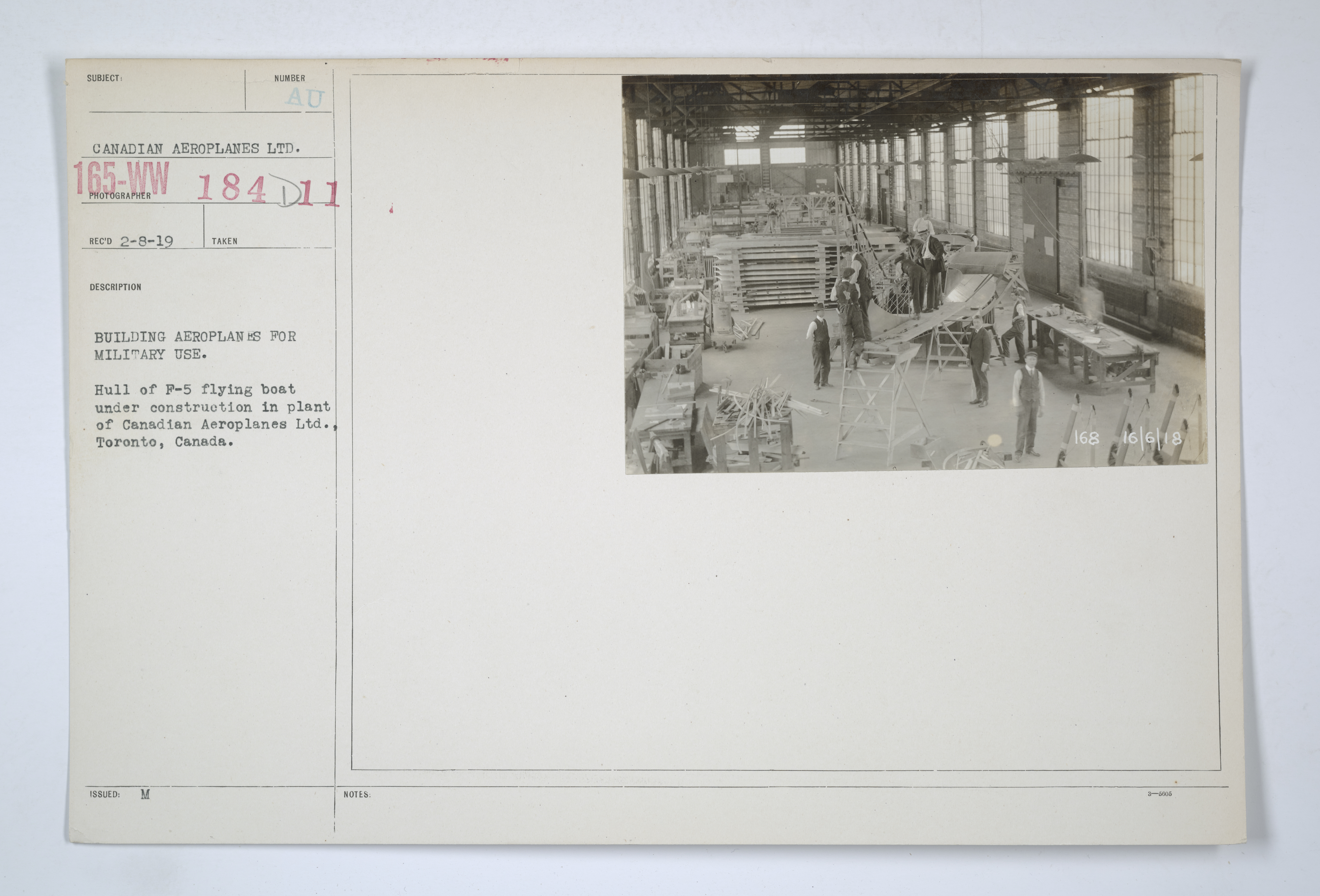 Scope and content: Photographer: Canadian Aeroplanes Ltd.